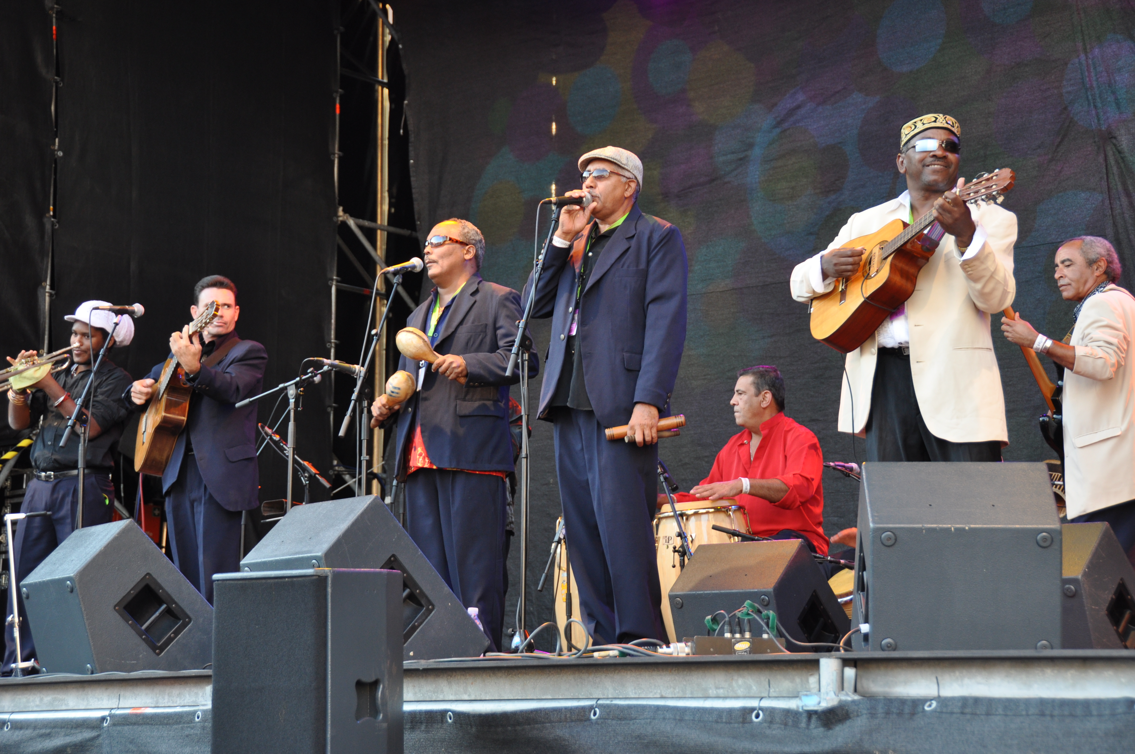 The cuban band Sierra Maestra in Nuremberg July 2010